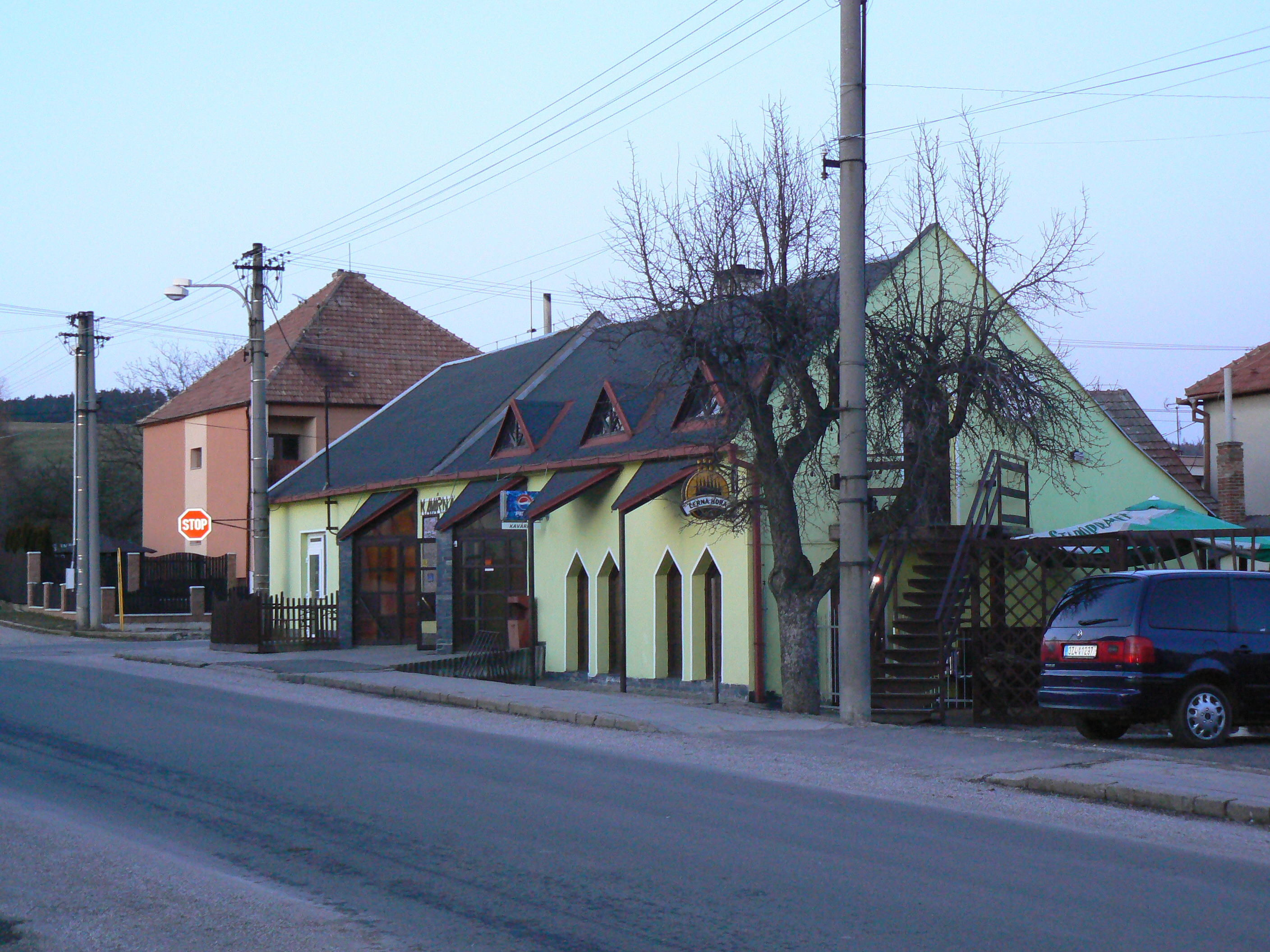 Česky: Medlovice, okres Uherské Hradiště - hospoda. This photograph was taken within the scope of the 'Czech Municipalities Photographs' grant. - OpenStreetMap(Info)